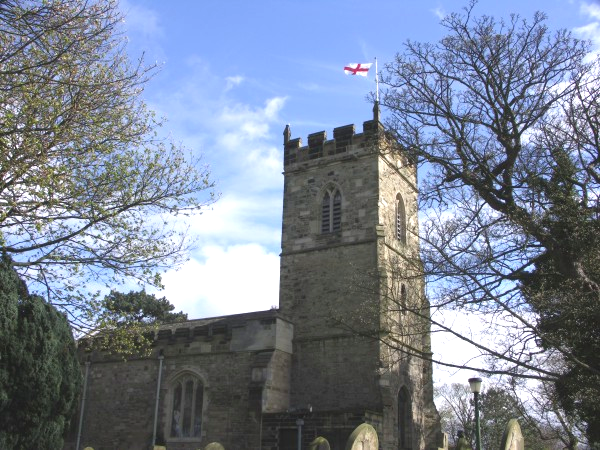 West tower of St John the Baptist's parish church, Egglescliffe, County Durham, seen from the northwest